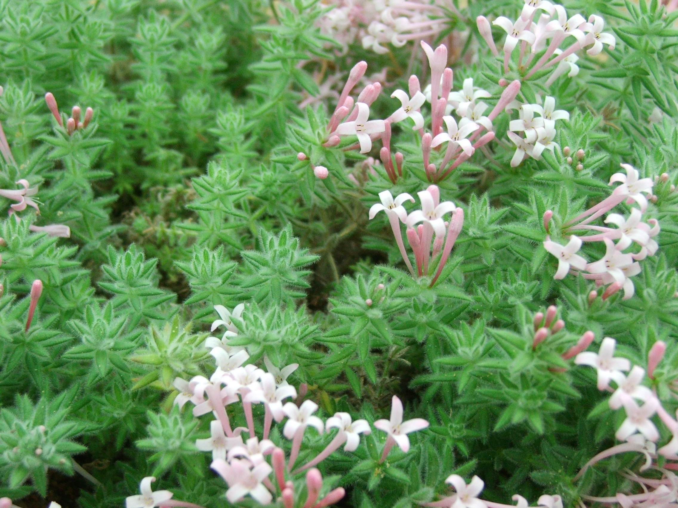 Asperula arcadiensis (rubiaceae) Location: University of Oxford Botanic Garden